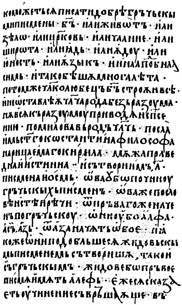 Page from An Account of Letters by Chernorizets Hrabar